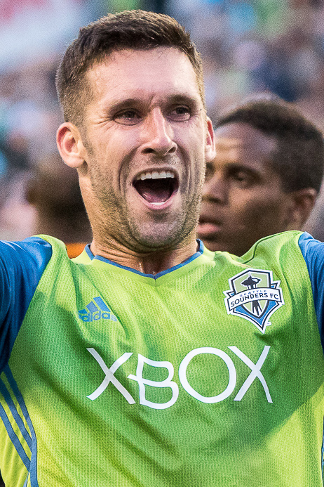 Will Bruin celebrating after scoring a goal against the Houston Dynamo on June 4, 2016. Photo by Max Aquino